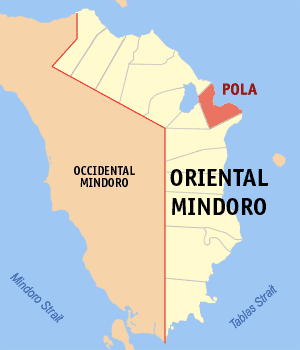 Map of Oriental Mindoro showing the location of Pola